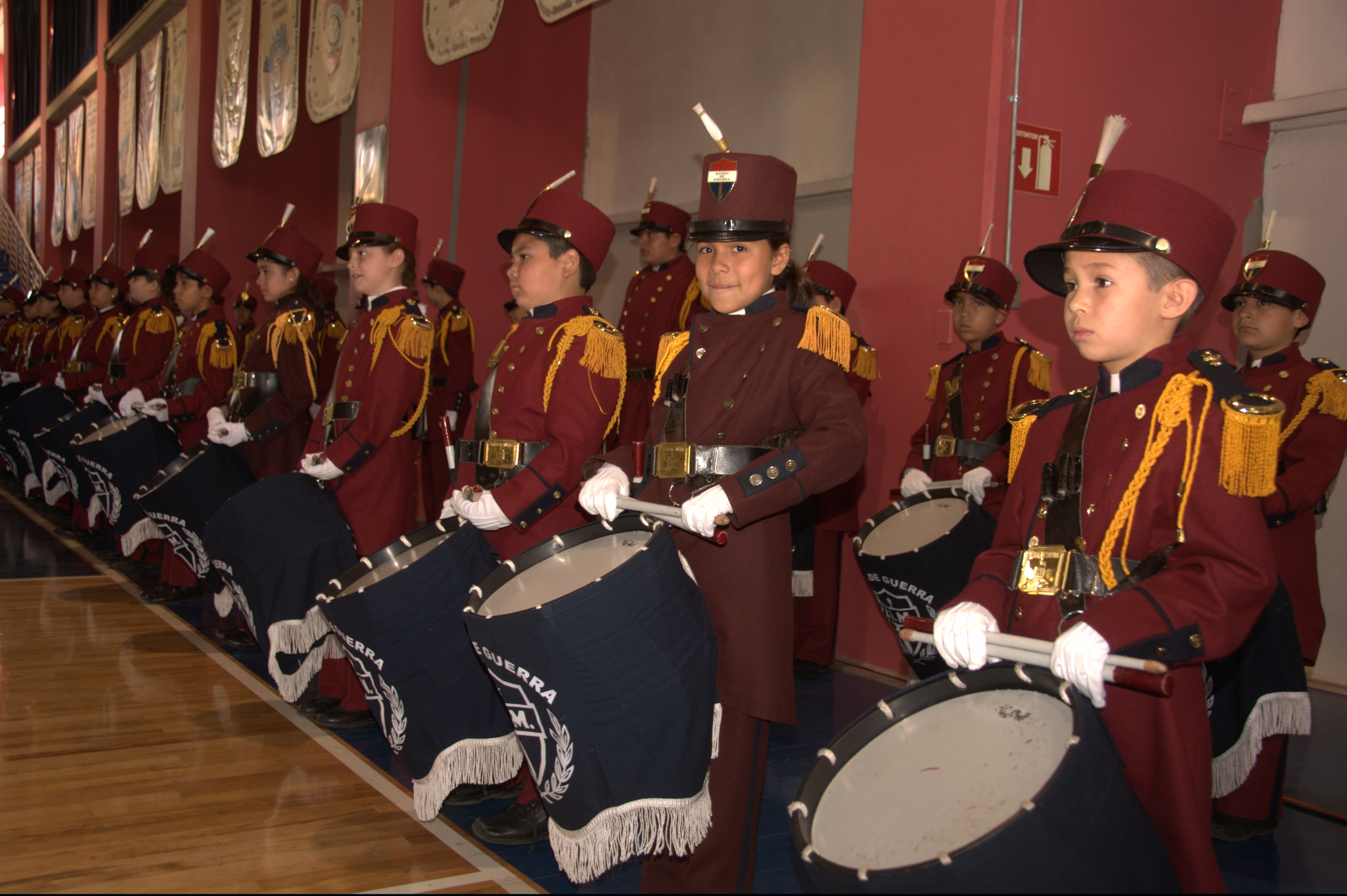 Child war band at Encuentro Cultural Deportivo at ITESM-Campus Ciudad de Mexico